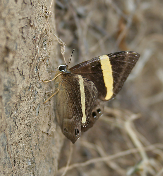 Dark Judy Abisara fylla at Samsing in Darjeeling district of West Bengal, India.